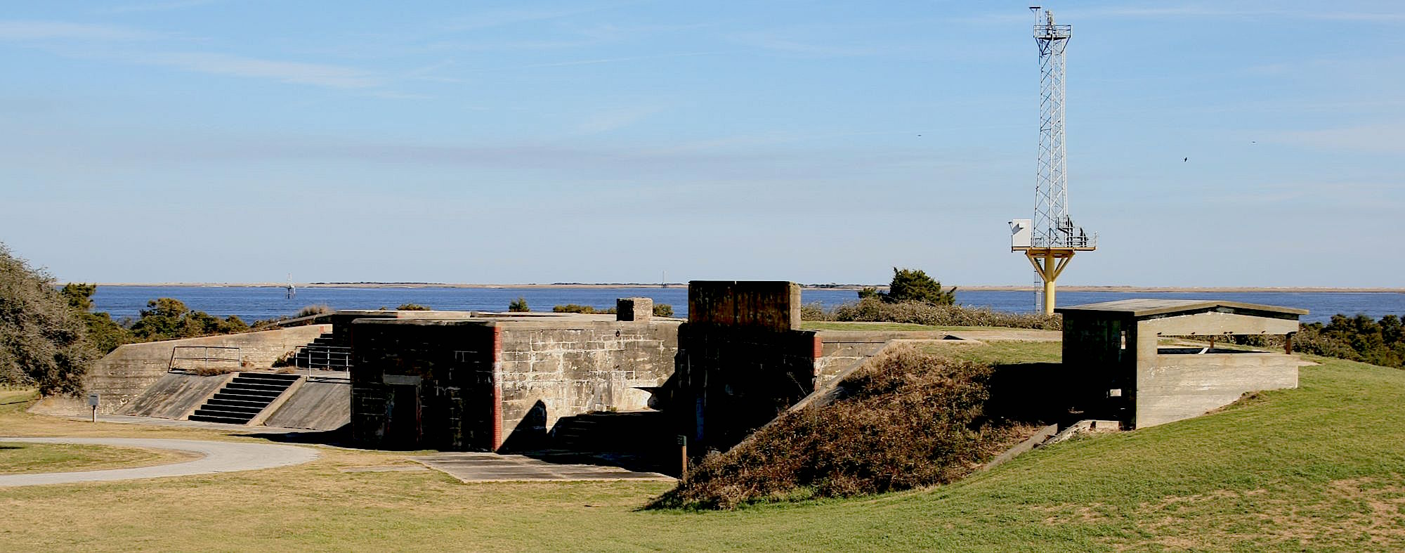 Looking southeast towards the Cape Fear Estuary